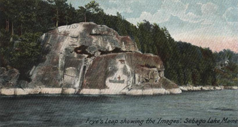 Frye's Leap, Raymond Neck, Maine (also known as Raymond Cape). Images on the promontory were painted during the steamboat era as a Sebago Lake attraction. Located on a peninsula in Sebago Lake, opposite Frye Island, the cliff is about 50 feet high and a highly dangerous jump for the inexperienced. It is also located on private property posted with several "No Trespassing" signs. Since 2008 there has been an assigned guard station on the cliff to ward off trespassers.